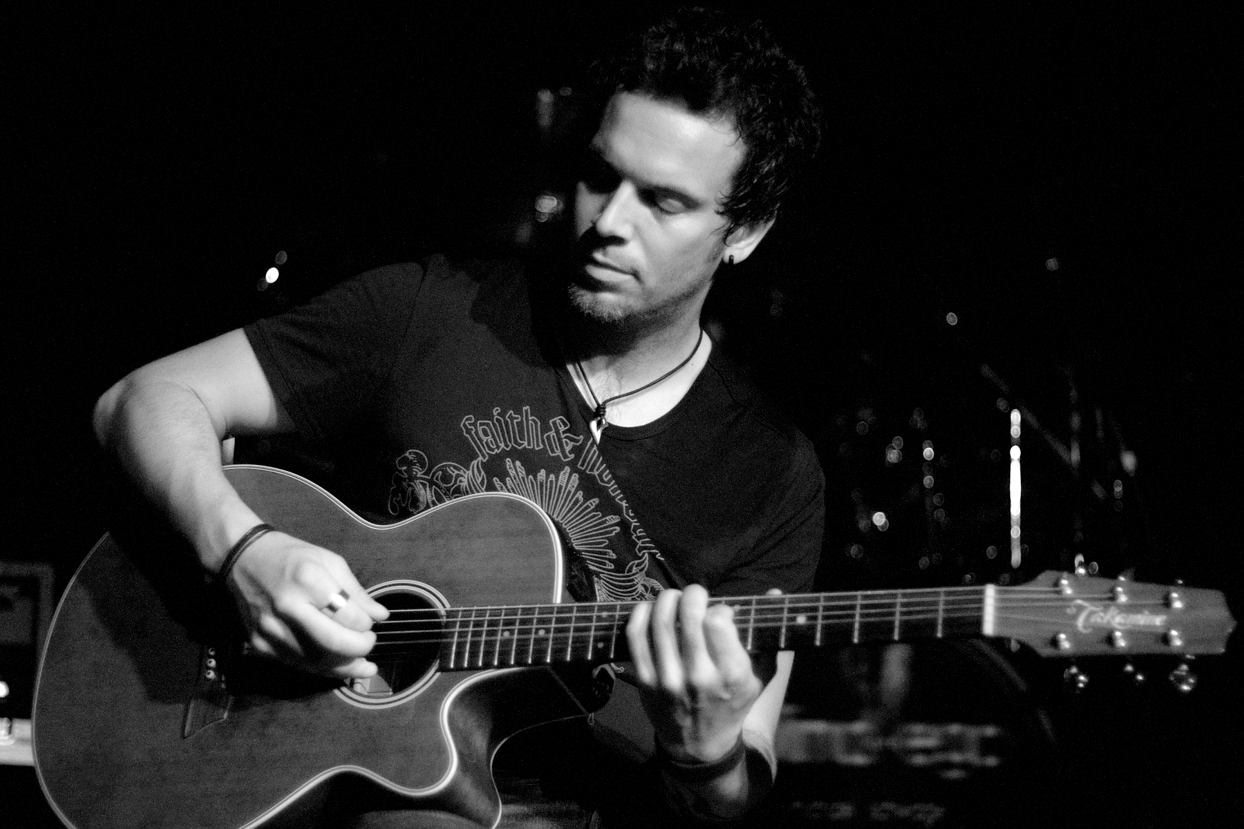 Acoustic View in my concert gallery.